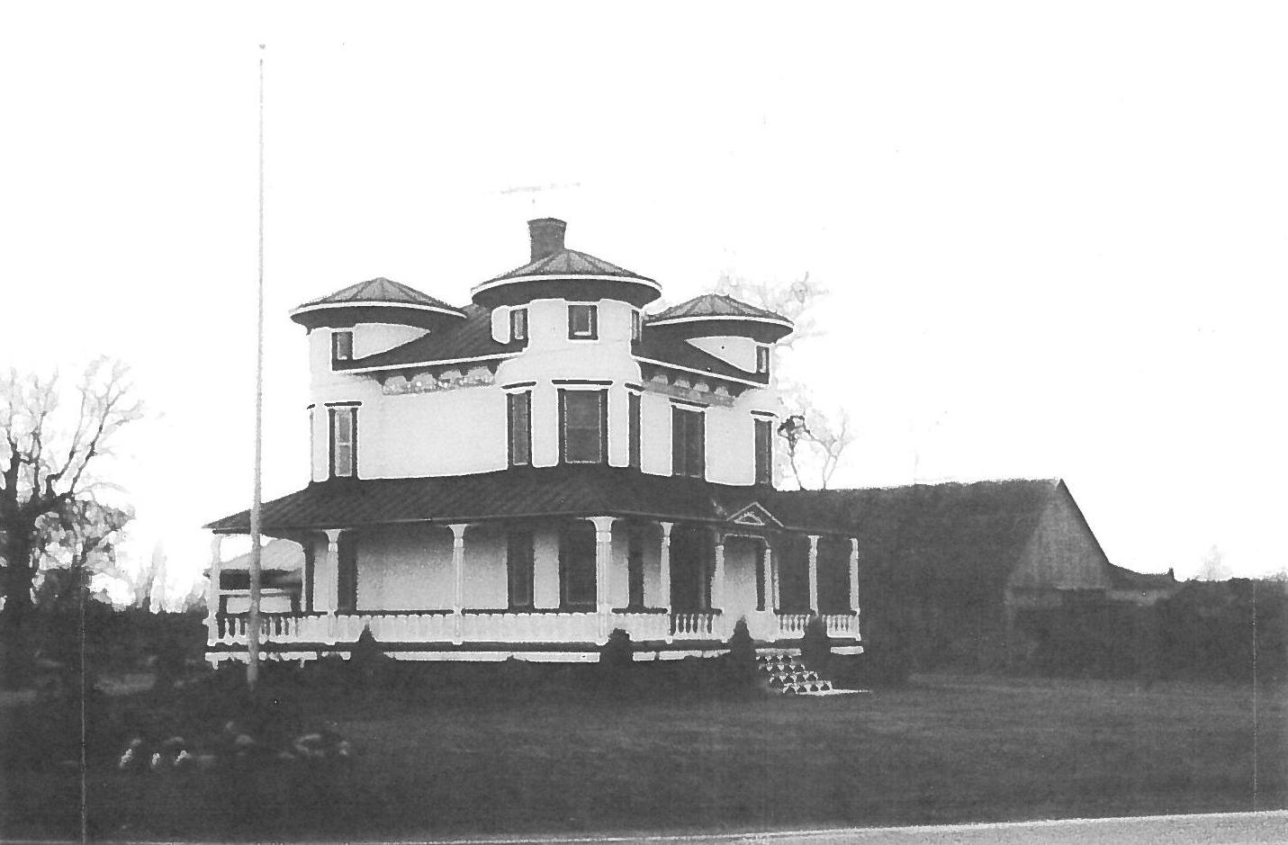 House of La Présentation, Quebec